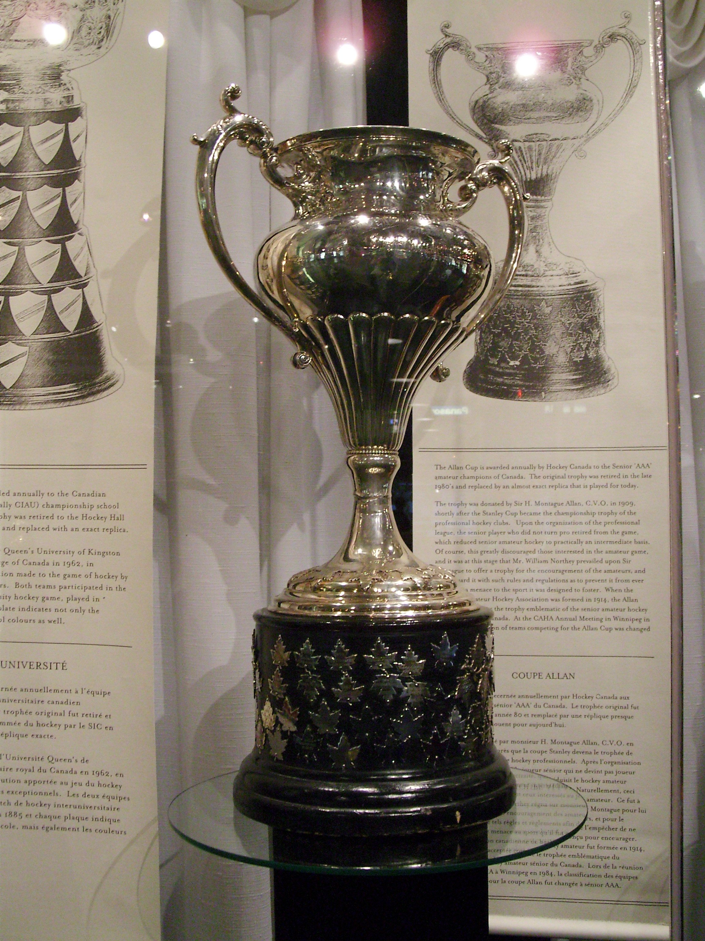 Allan Cup Trophy, honouring the senior amateur ice hockey champion of Canada, on display in the Hockey Hall of Fame